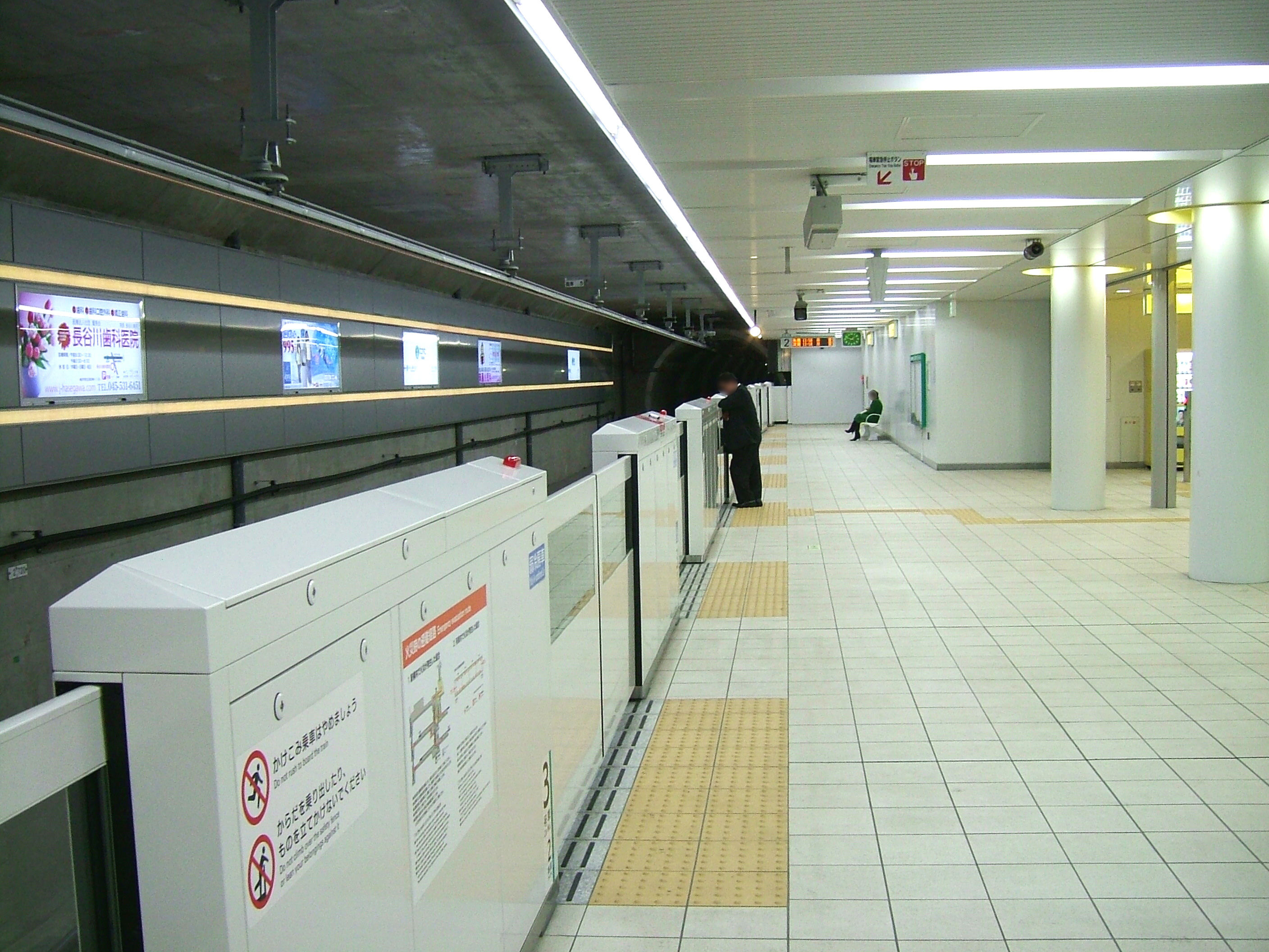 Takata Station platform (Yokohama Municipal Subway Green Line)